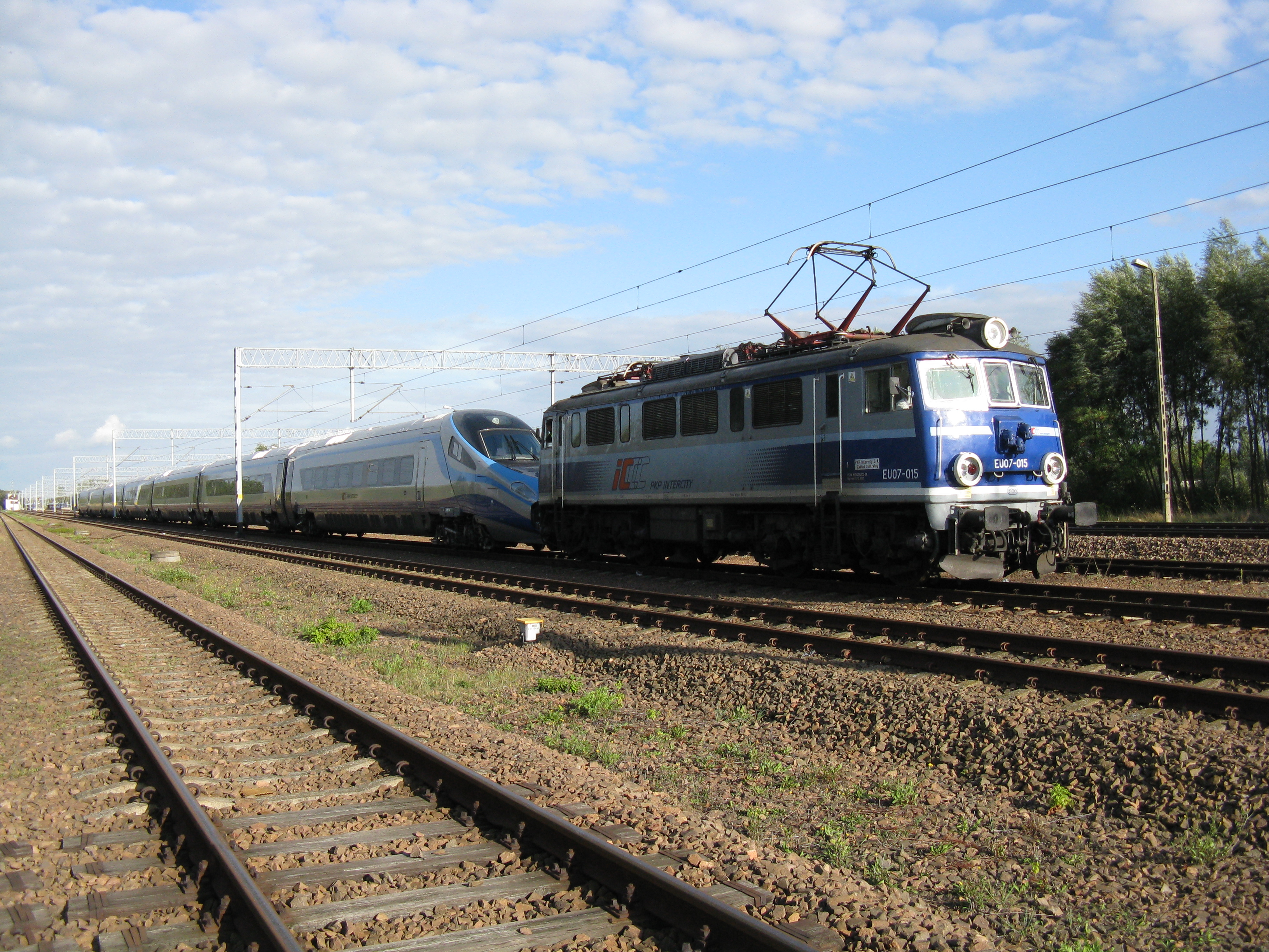 Locomotive EU07-015 on railway siding in Blonie. Back ED250-001 from Warsaw to Żmigród for further research.